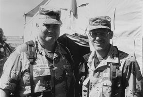 COL Raymond C. Ruppert, the Staff Judge Advocate, U.S. Central Command (CENTCOM). In this photograph, taken at Safwan, Iraq in March 1991, Ruppert stands next to his boss, GEN H. Norman Scharzkopf, the Commander-in-Chief, CENTCOM.